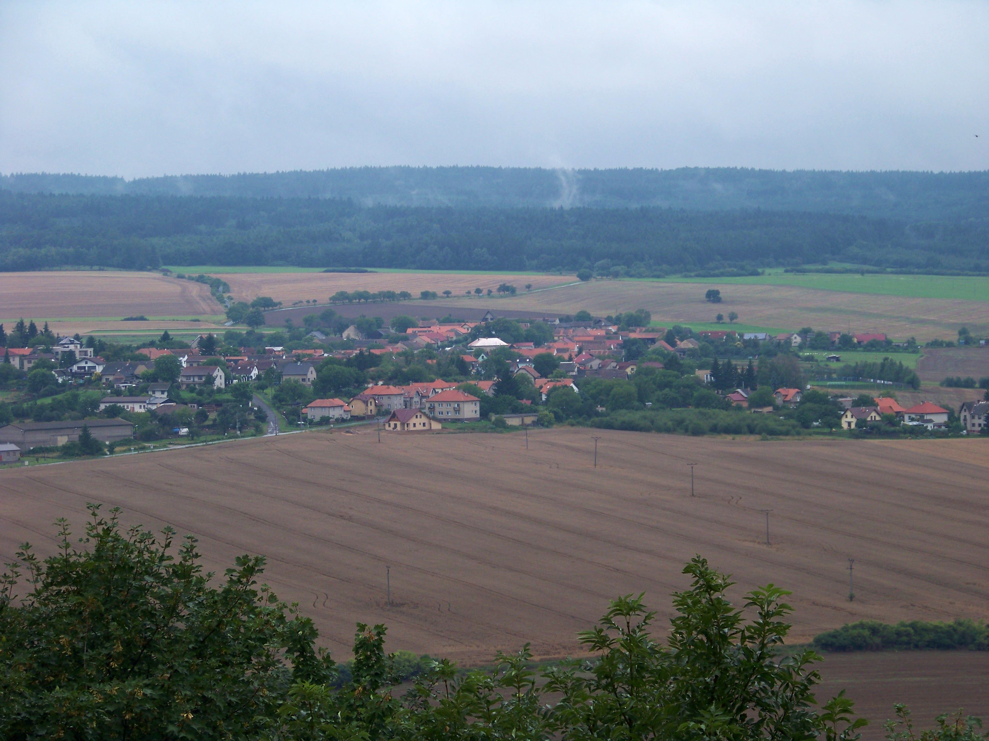 Beroun District, Central Bohemian Region, the Czech Republic. A view of Bzová from Točník castle.